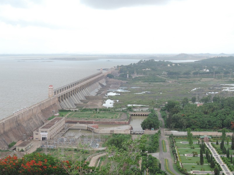 Tungabhadra dam, near Hospet, Karnataka, India